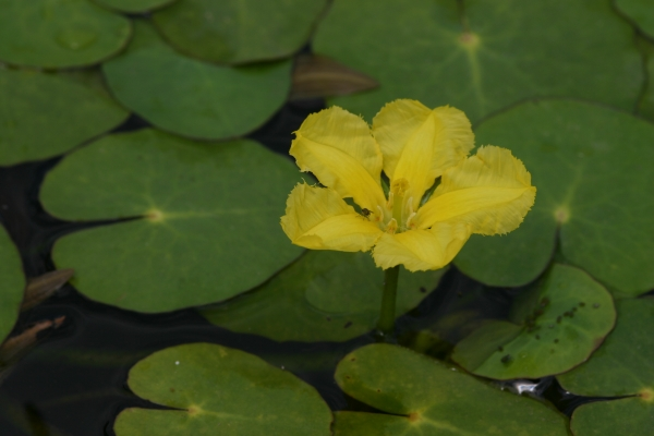 Nymphoides peltata, Nyirkai-Hany, Hungary